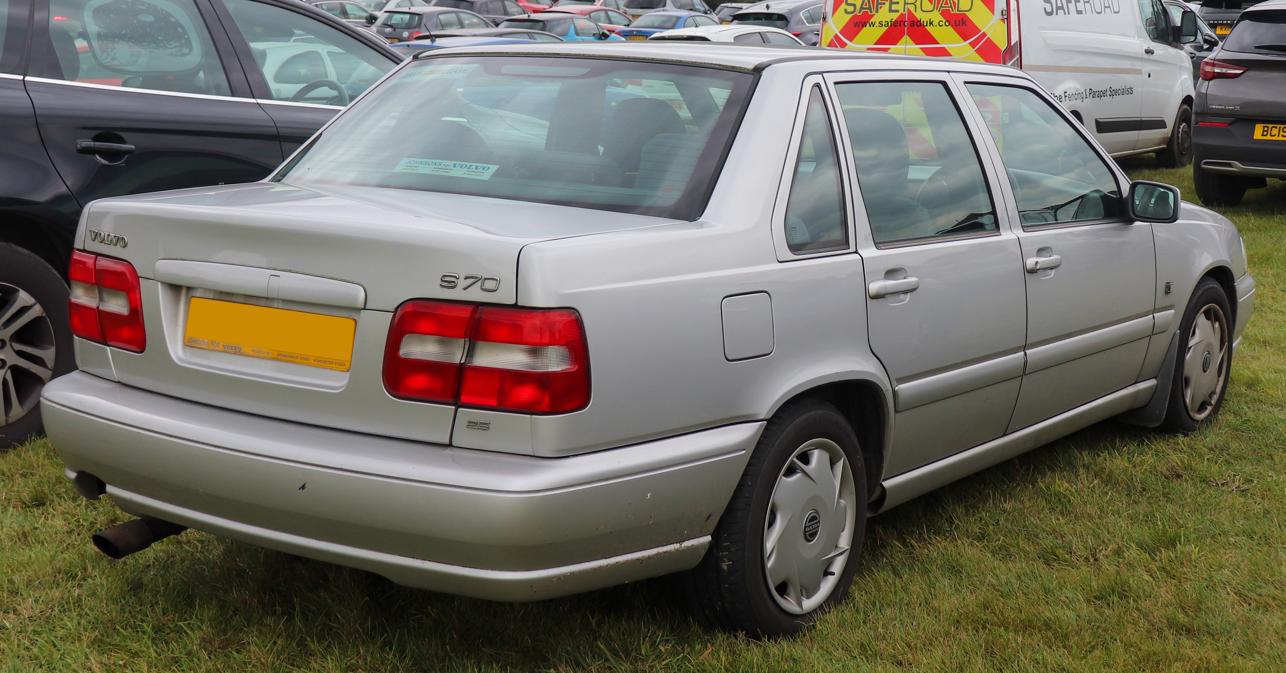 1999 Volvo S70 10V Automatic 2.4 Rear Taken in Warwick